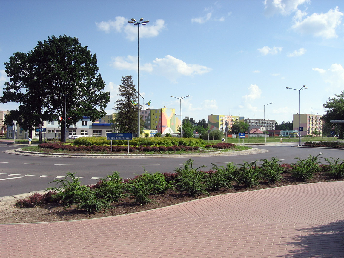 City of Ostroleka (Poland), Z. Niedzialkowska's rondo